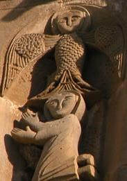 Mamkan Aranshahik